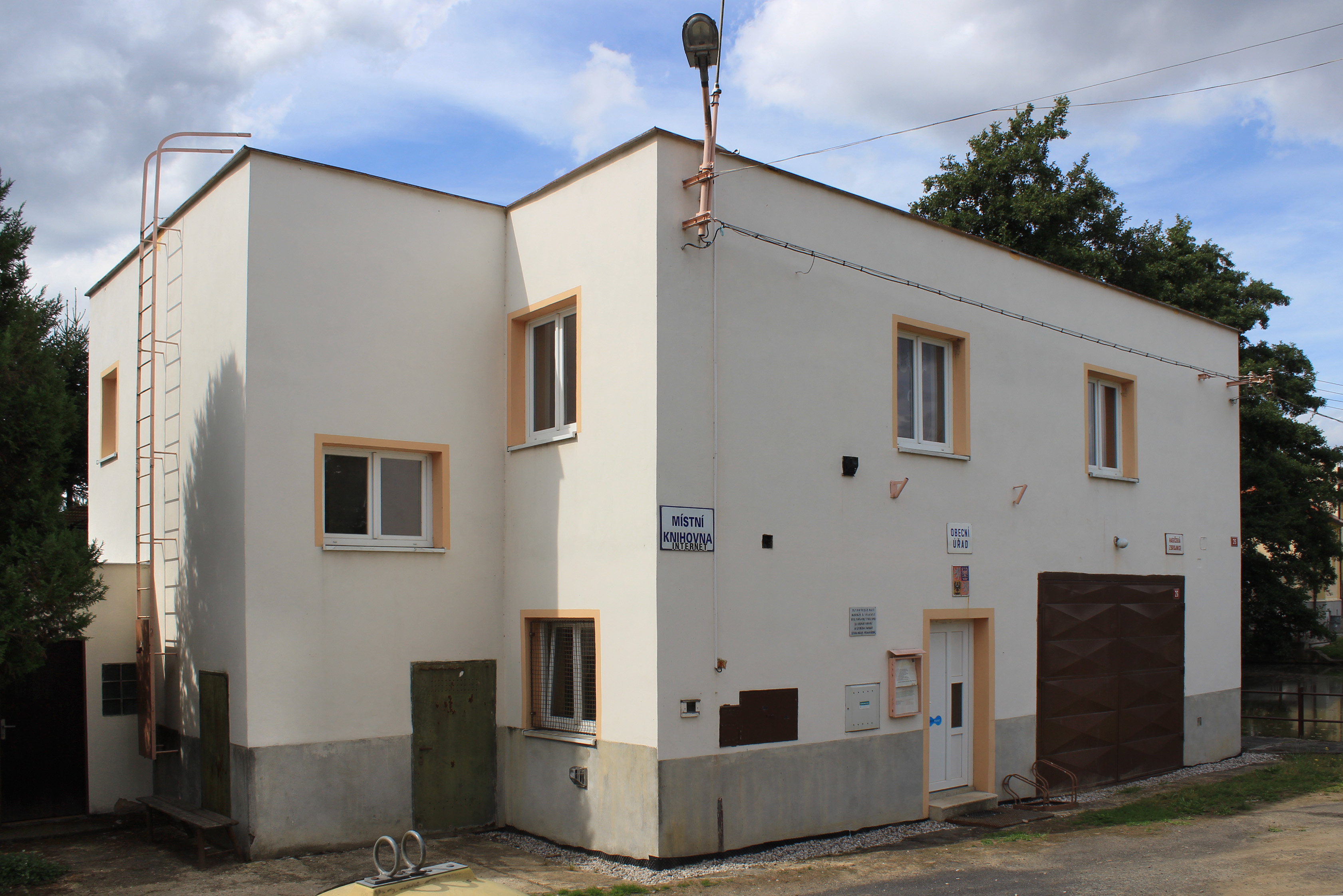 Municipal office in Neuměř, Czech Republic.